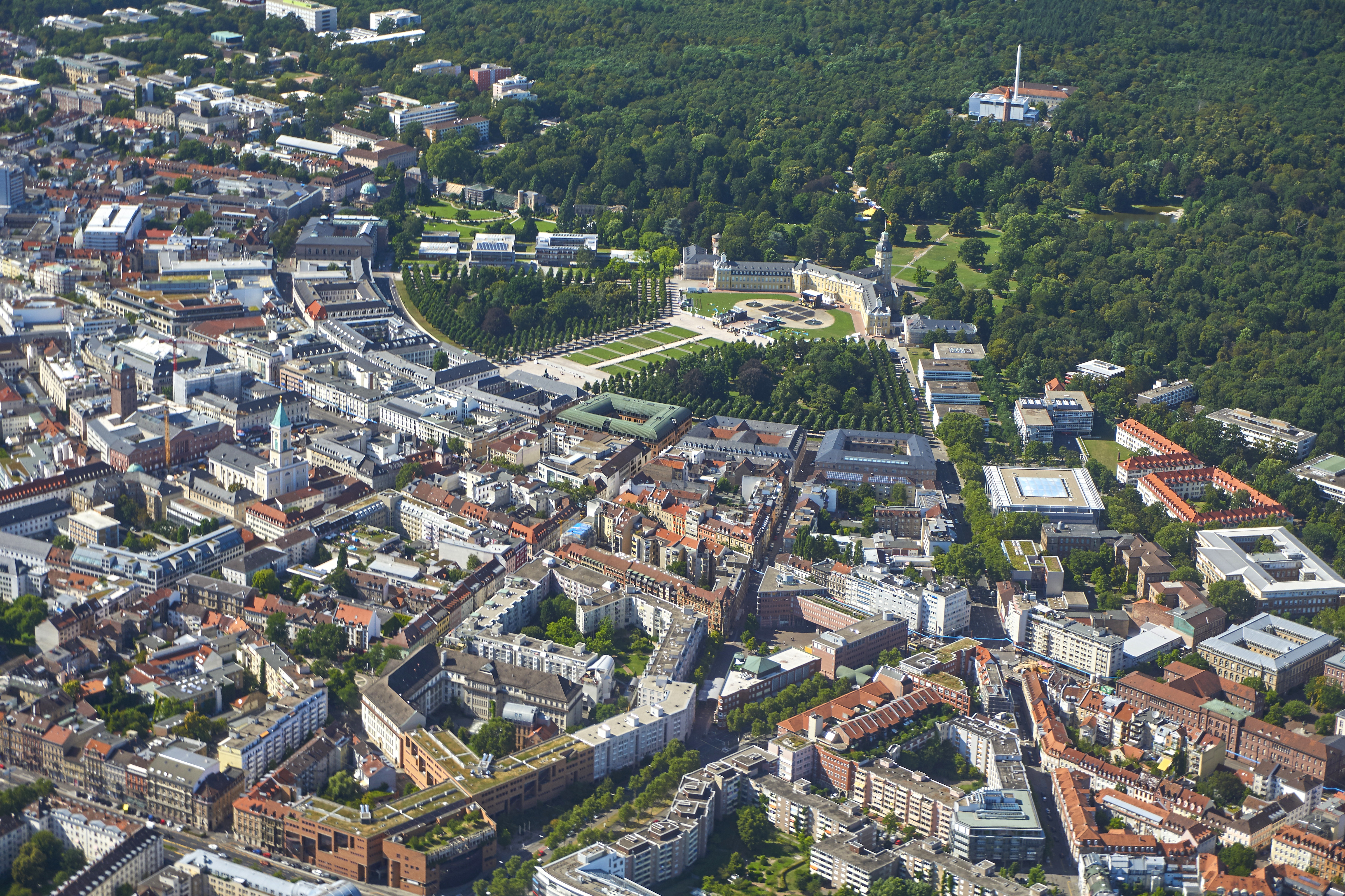 Aerial image of Karlsruhe Palace and the "fan city"